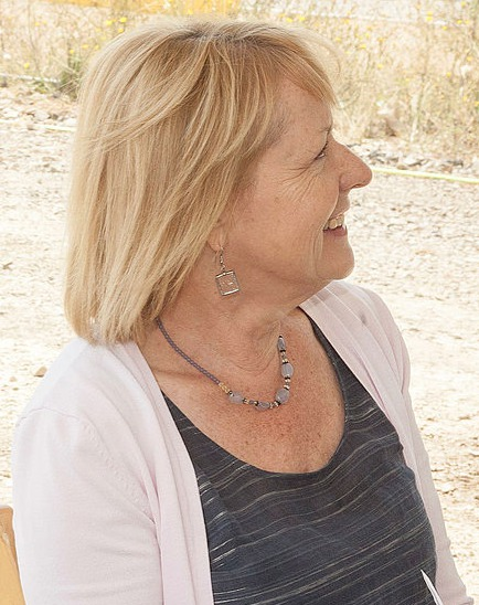 Rep. Nancy Nathanson, Eugene Mayor Kitty Piercy and Springfield Mayor Christine Lundberg.